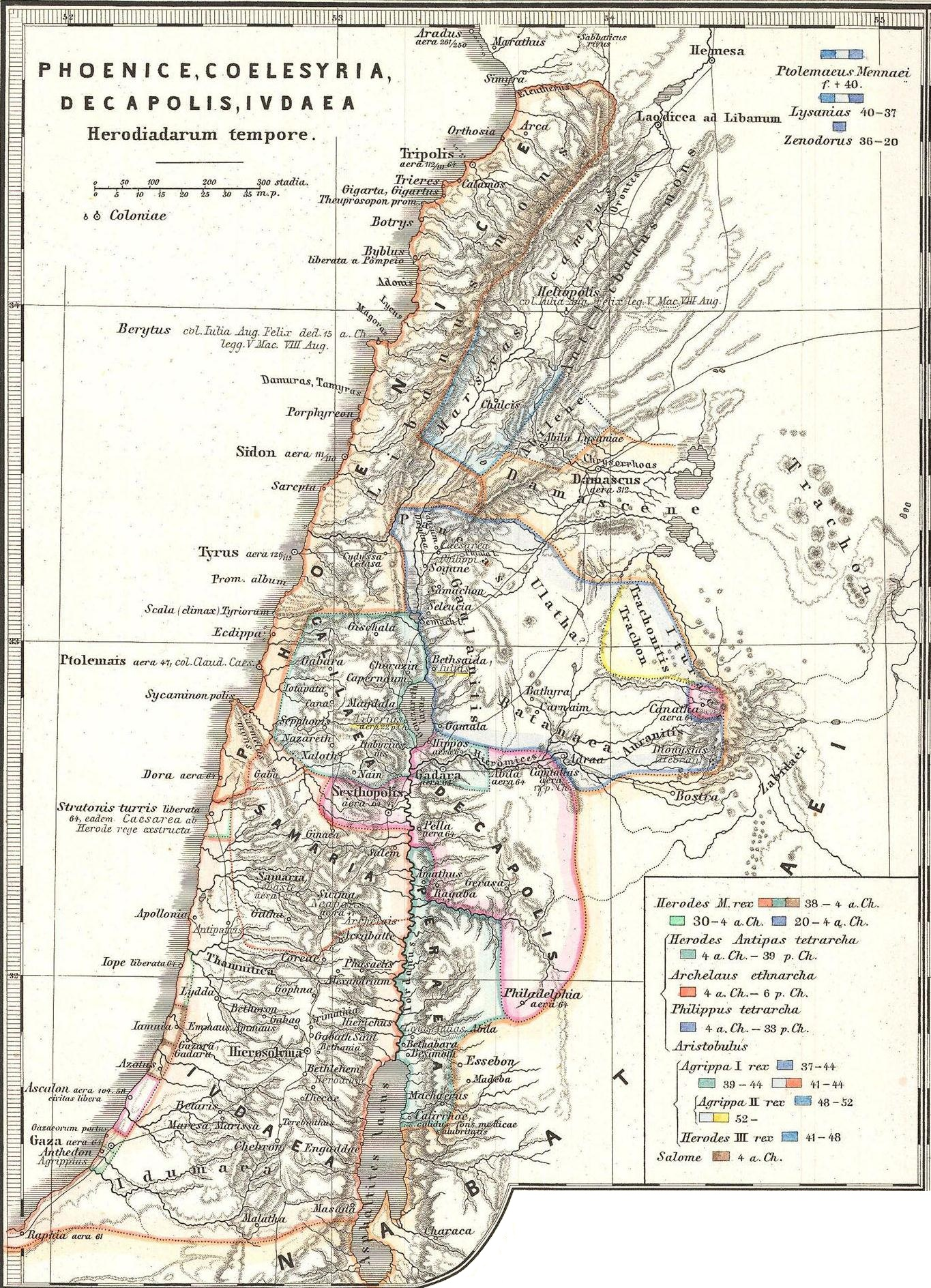 This is Karl von Spruner’s 1865 map of the Holy Land, or Israel and Palestine. Essentially nine maps in one, Spruner features two dominant maps and 7 smaller insets, including a Peutinger Table in the lower-right quadrant. The Peutinger Map is an astoundingly important discovery and is today’s only known example of a Roman world map, though the original Peutinger was itself a mediaeval copy of the Roman original. This map also shows, in counter-clock wise order from the Peutinger table, Galilaea, Hierosolyma, Judaea, Palestine at the time of Herod, Syria, Arabia, and Phoeniciae, Palestine, and Arabia. Many of the insets include their own scale or legend. Map notes important cities, rivers, mountain ranges and other minor topographical detail. Territories and countries outlined in color. The whole is rendered in finely engraved detail exhibiting throughout the fine craftsmanship of the Perthes firm.